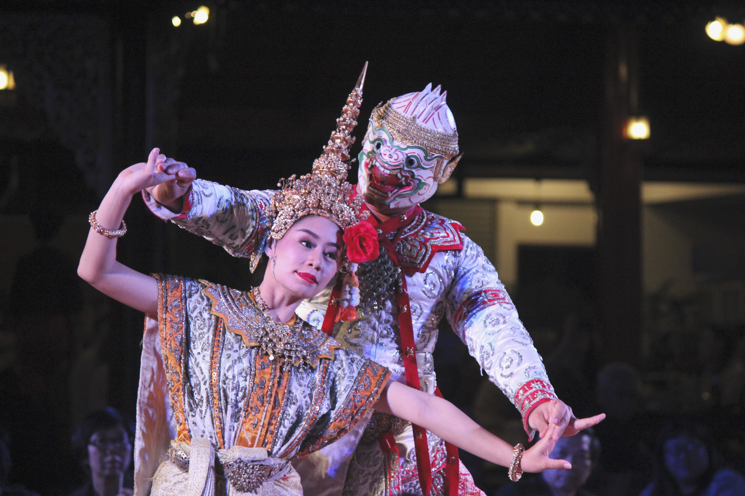 This photo has been taken in the country: Thailand